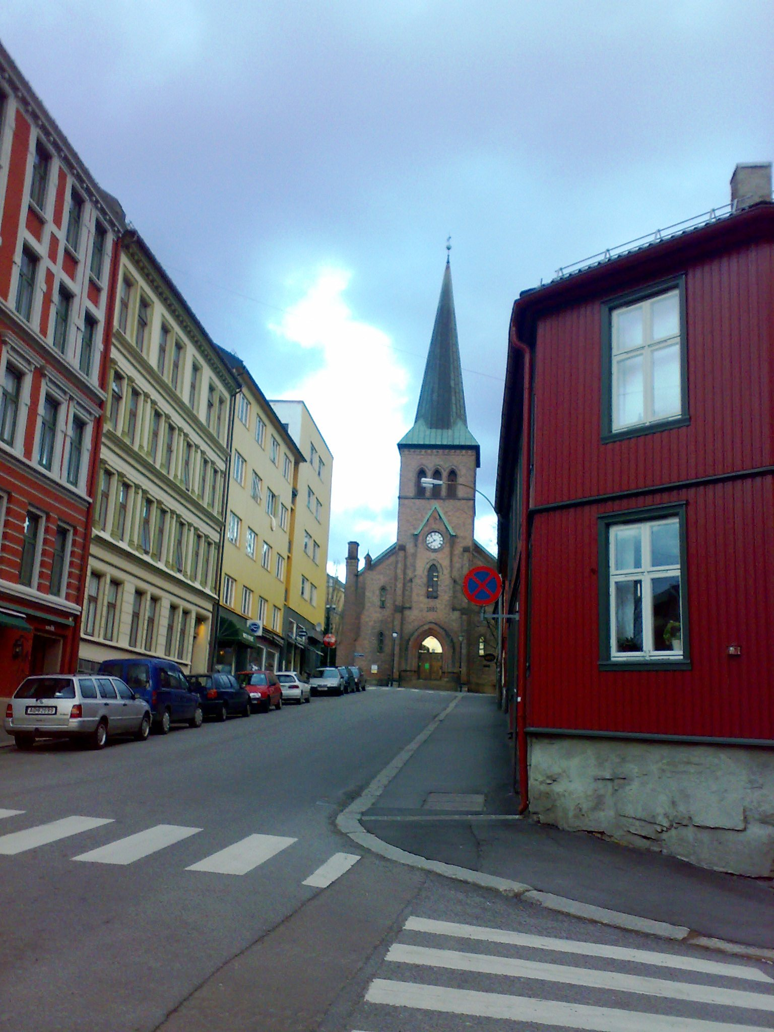 Kampen area, eastern-central Oslo, Norway